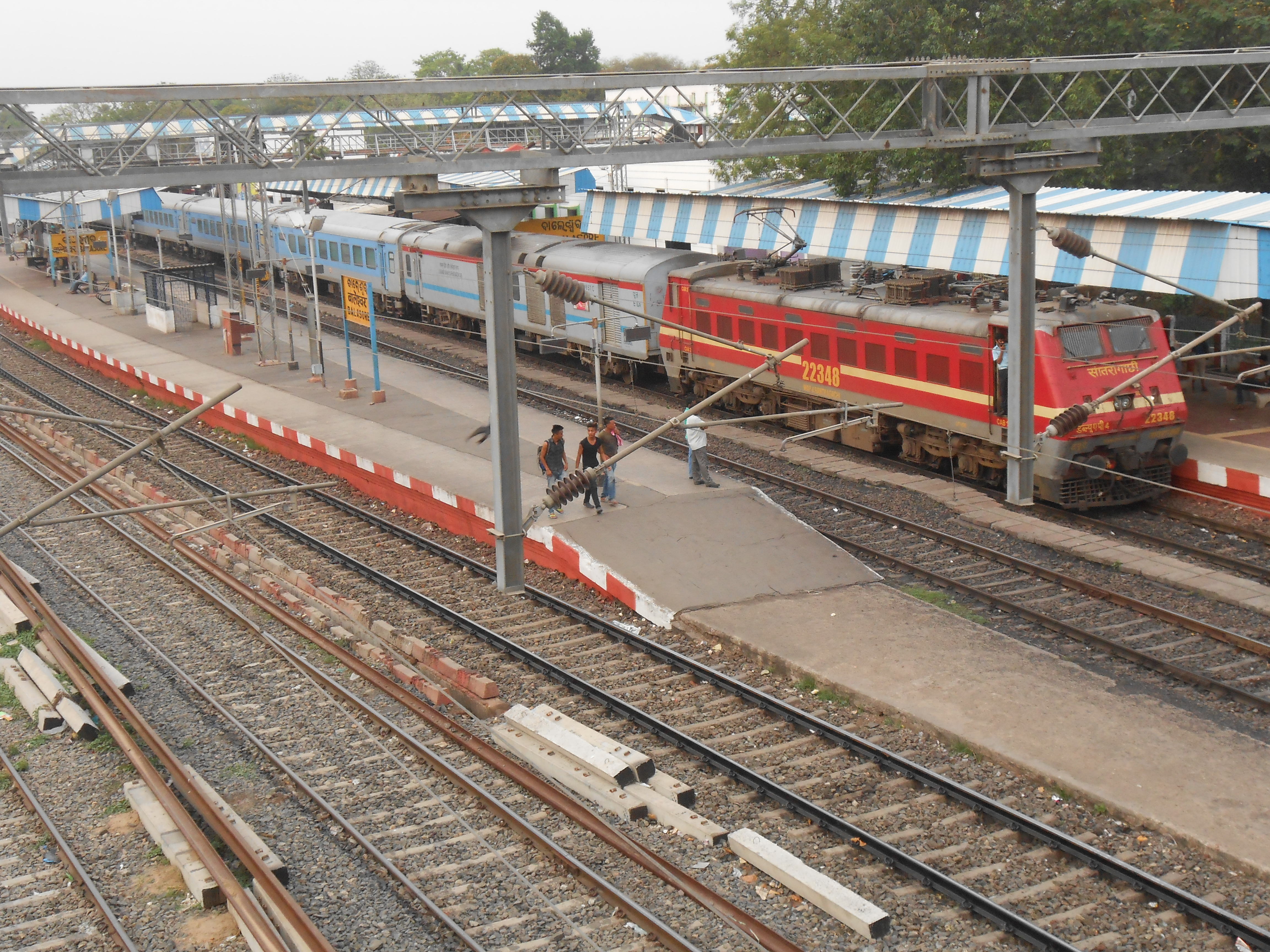 Newly LHBfied 12277 Howrah-Puri Shatabdi Express's Halt at Balasore